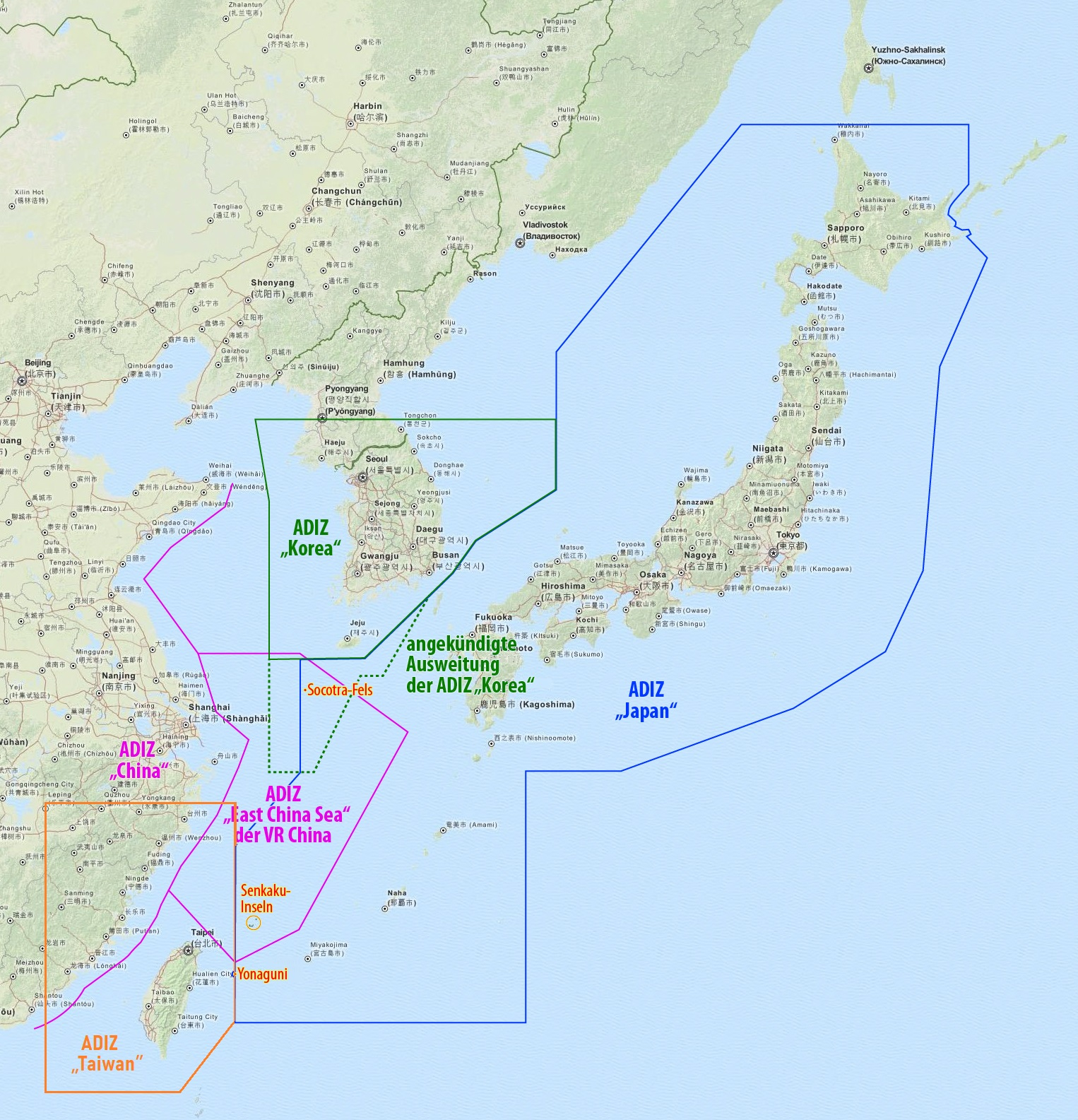 Map of the CADIZ (PR China; also showing the ADIZ "East China Sea") KADIZ (South Korea; with extension announced) JADIZ (Japan)